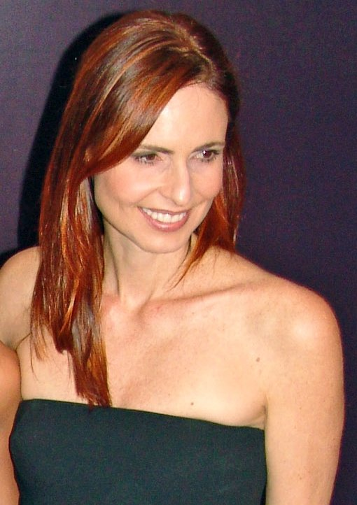 Brazilian actress Sílvia Pfeifer.